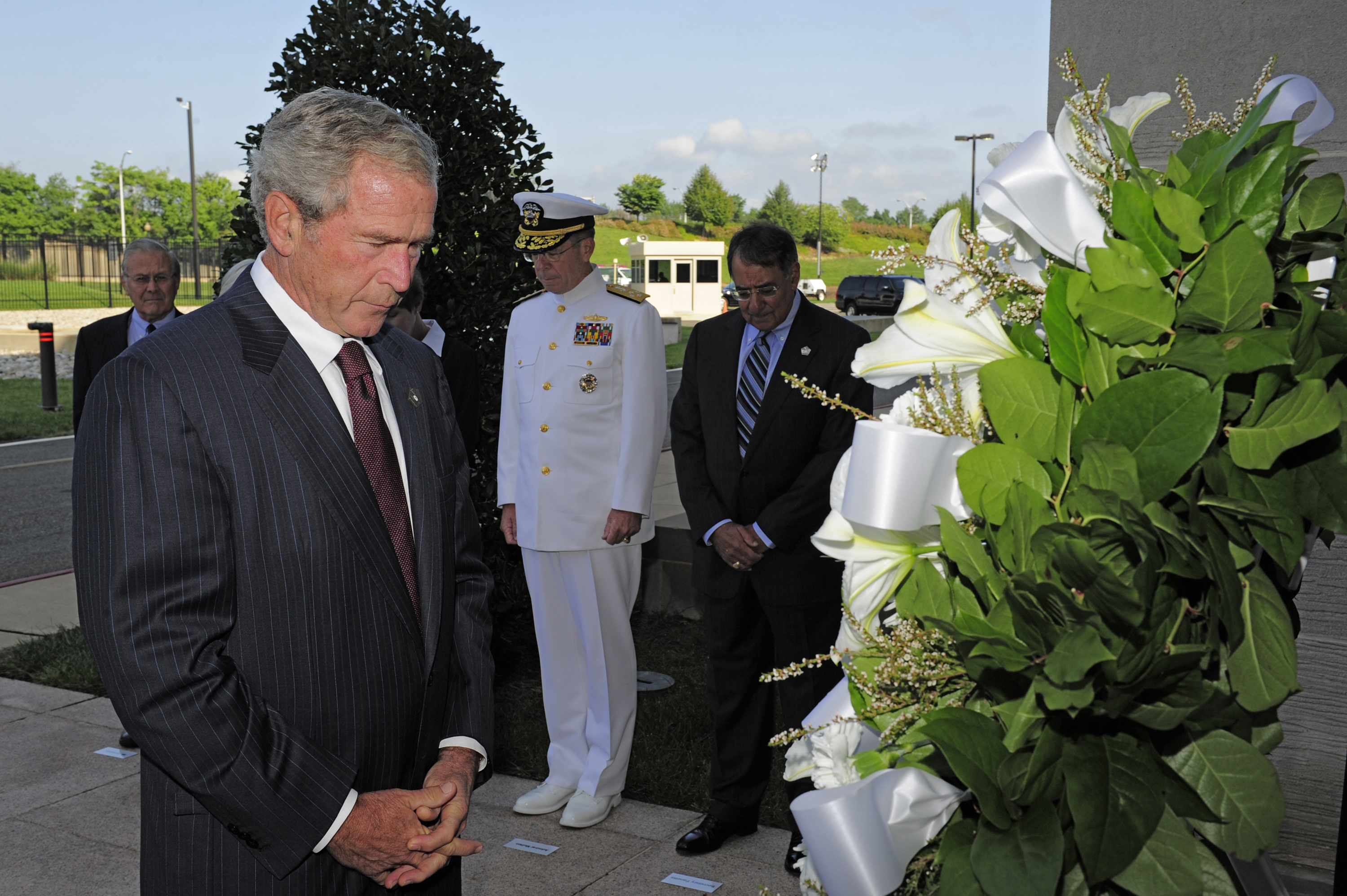 Former President George W. Bush, foreground, lays a wreath at the Pentagon Sept. 10, 2011, to honor and remember those who perished during the Sept. 11 terrorist attacks. Joining Bush and his wife, Laura, were former Secretary of Defense Donald Rumsfeld and his wife, Joyce; Chairman of the Joint Chiefs of Staff Navy Adm. Mike Mullen and his wife, Deborah; and Secretary of Defense Leon Panetta.